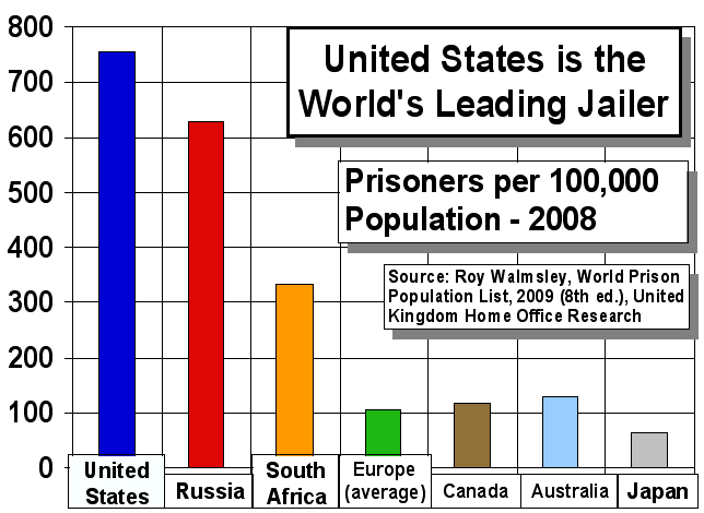 Selected incarceration rates worldwide. The stats source is the World Prison Population List, 8th edition. PDF file. By Roy Walmsley. Published in 2009. International Centre for Prison Studies. School of Law, King's College London. "The information is the latest available in early December 2008. … Most figures relate to dates between the beginning of 2006 and the end of November 2008." See also the latest data here: World Prison Brief. Compare many nations. Select from menu: prison population totals, prison population rates (highest to lowest), percentage of pre-trial detainees / remand prisoners within the prison population, percentage of female prisoners within the prison population, percentage of foreign prisoners within the prison population, and occupancy rates. See also: en: List of countries by incarceration rate.